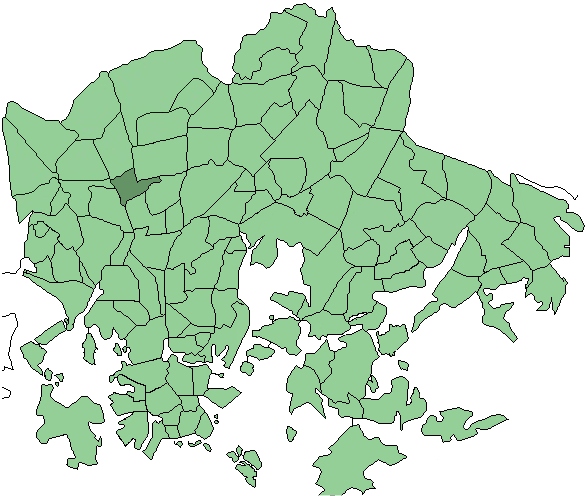 Districts of Helsinki, Pirkkola highlighted